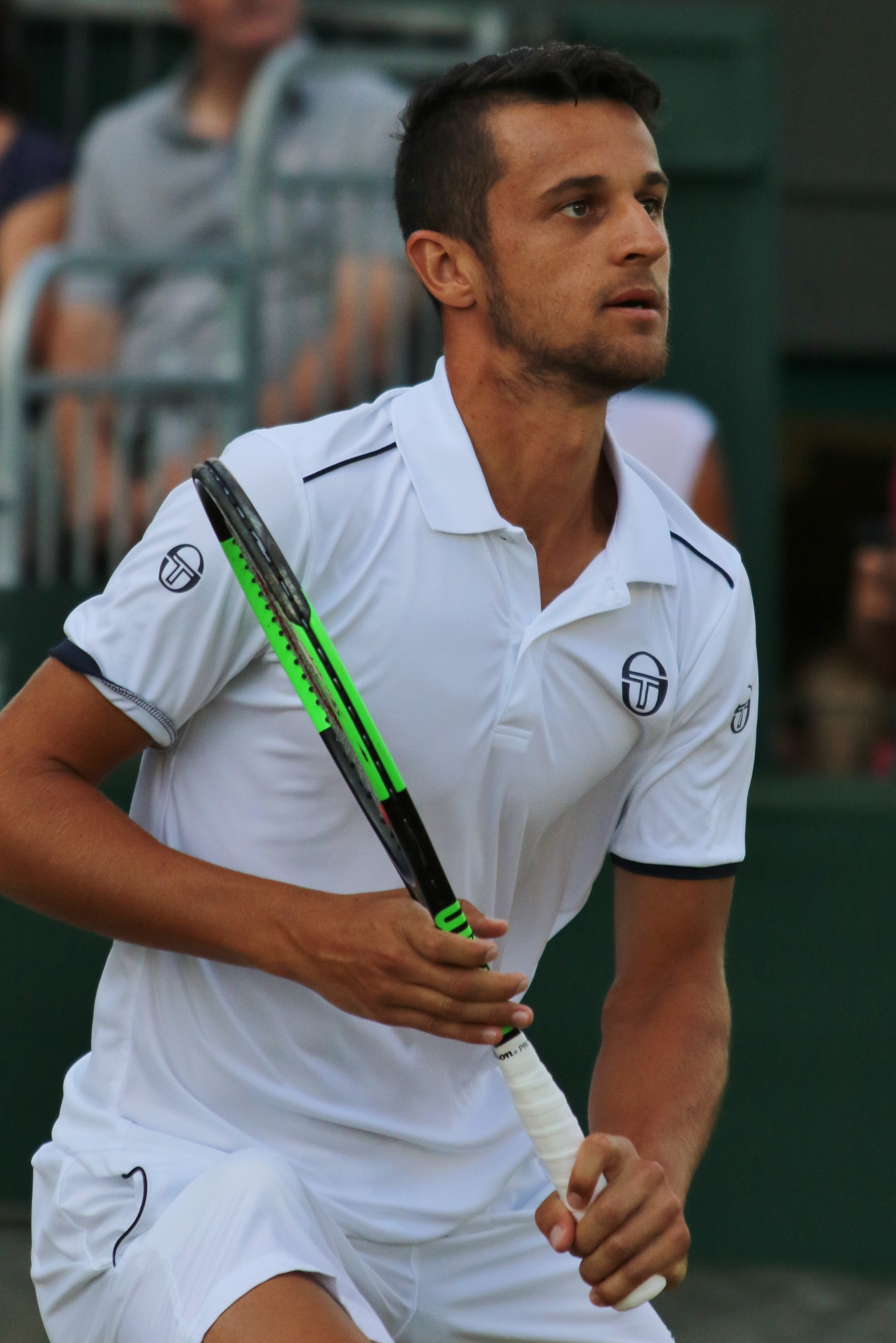 Pavic WM17 (32)